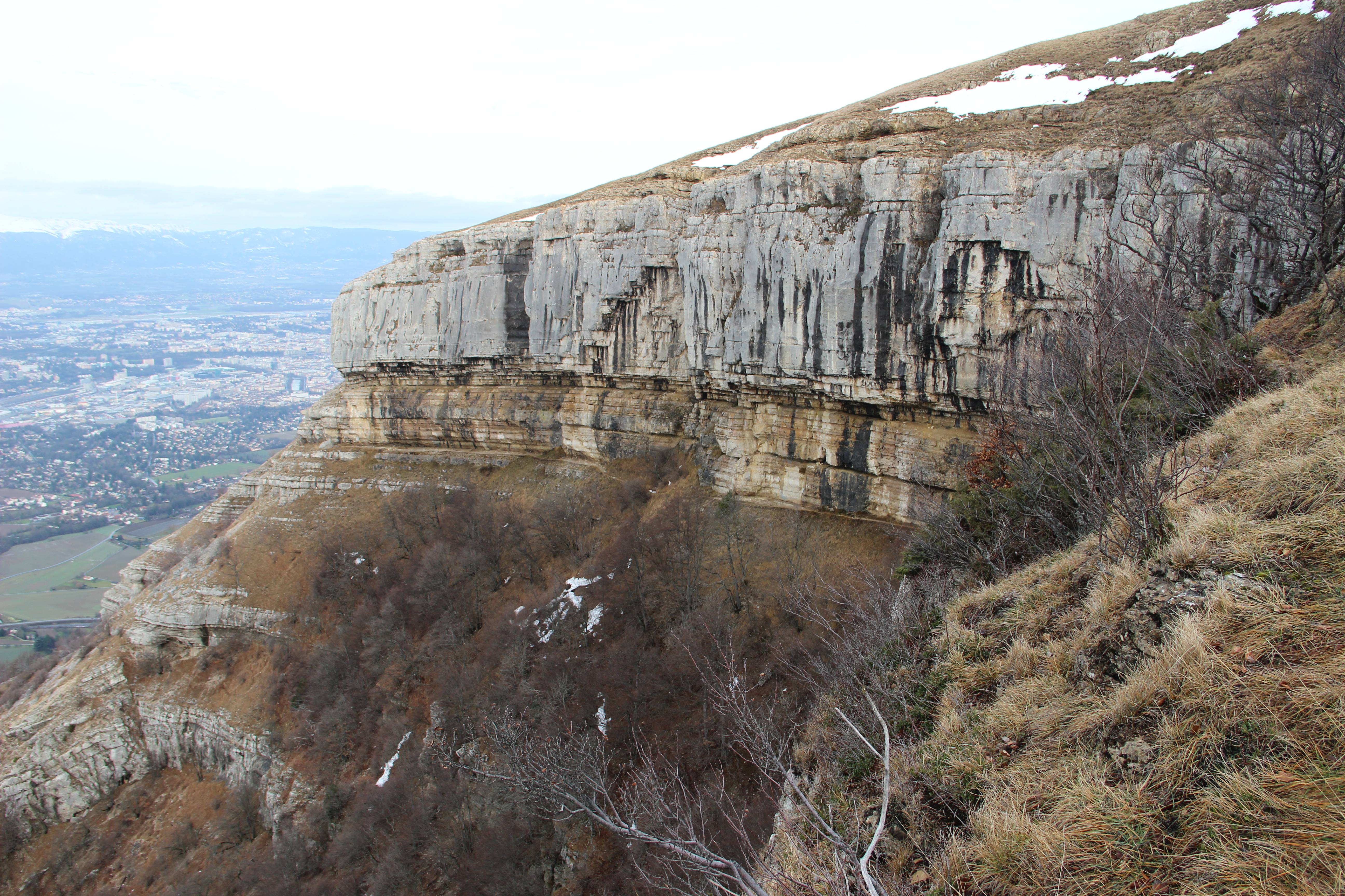 View on the Corraterie